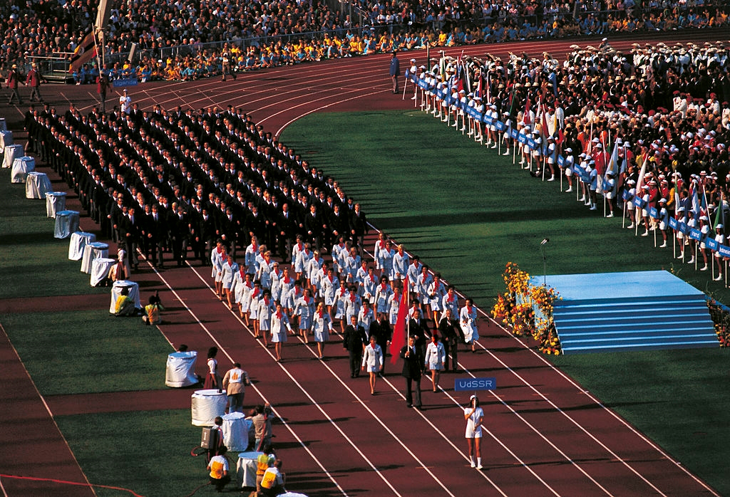 Soviet Union at the 1972 Olympics (Opening Ceremony)